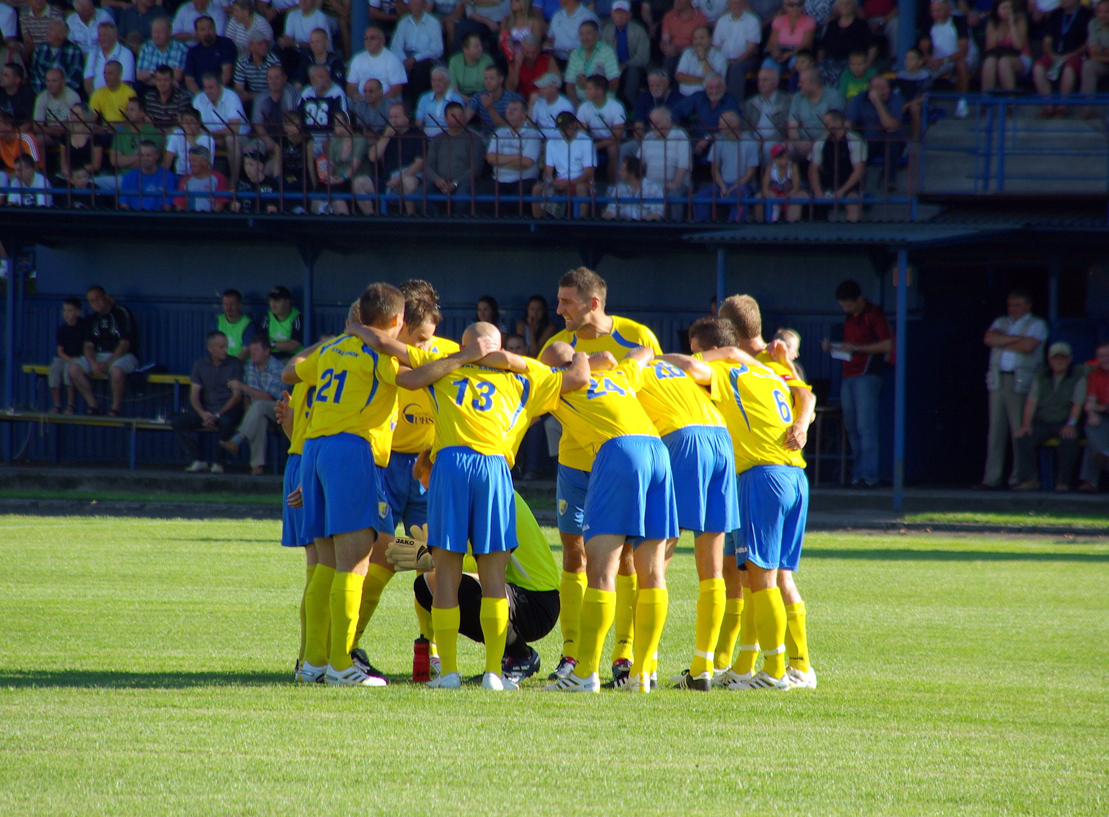 Stal Sanok players (match vs. Karpaty Krosno 2010 August, 21)